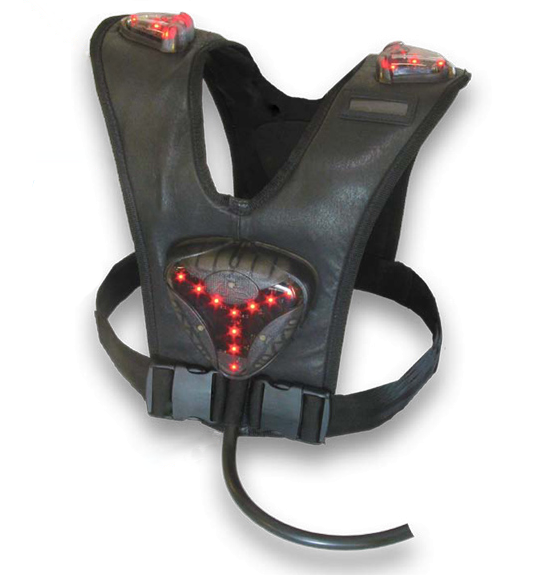 LaserTag vest by Delta Strike with 4 sensors. Back-, front- and zwei shoulder-sensors.